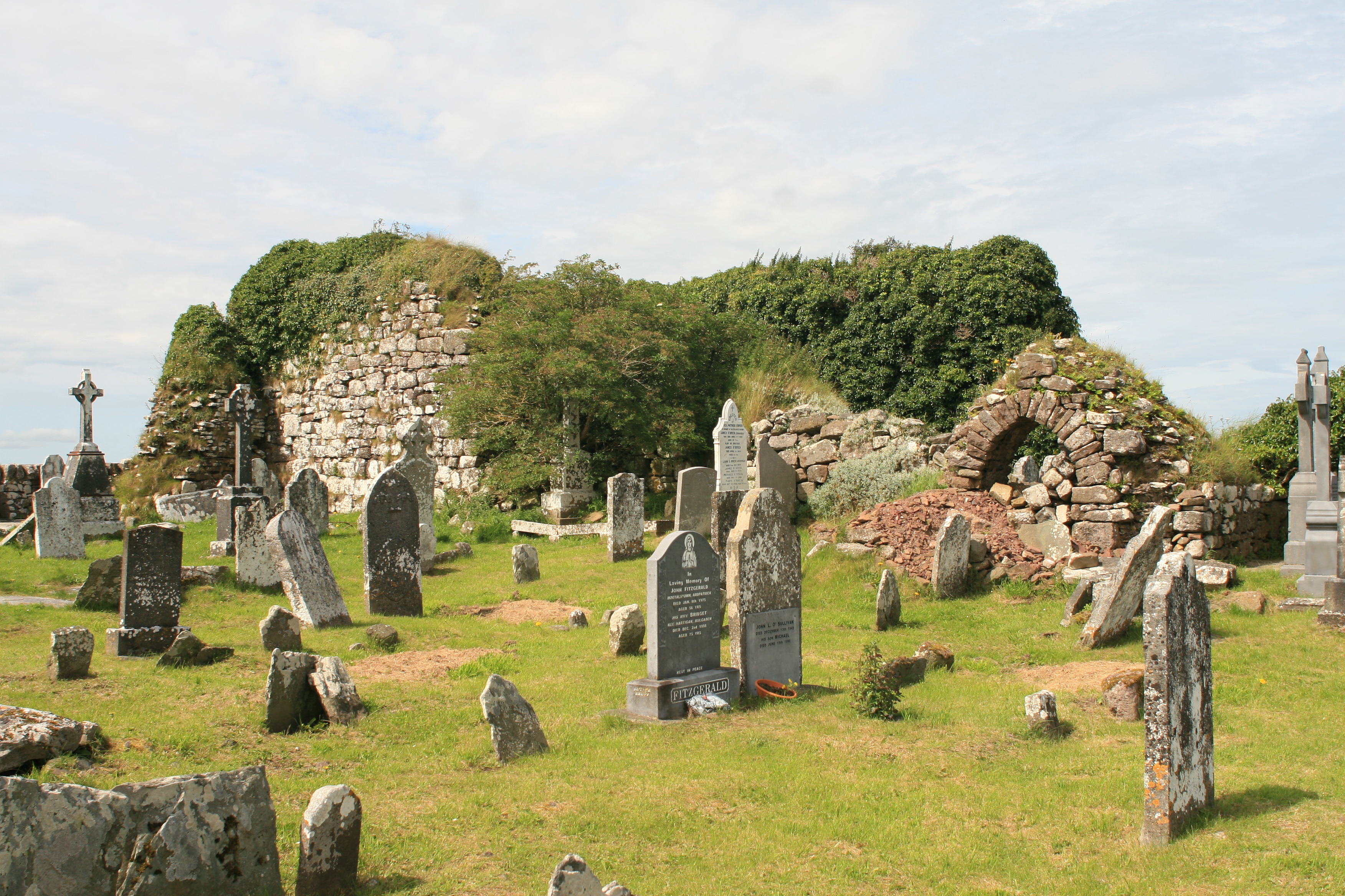 Ardpatrick, County Limerick, Ireland Ruins of the church of the former monastery as seen from the south